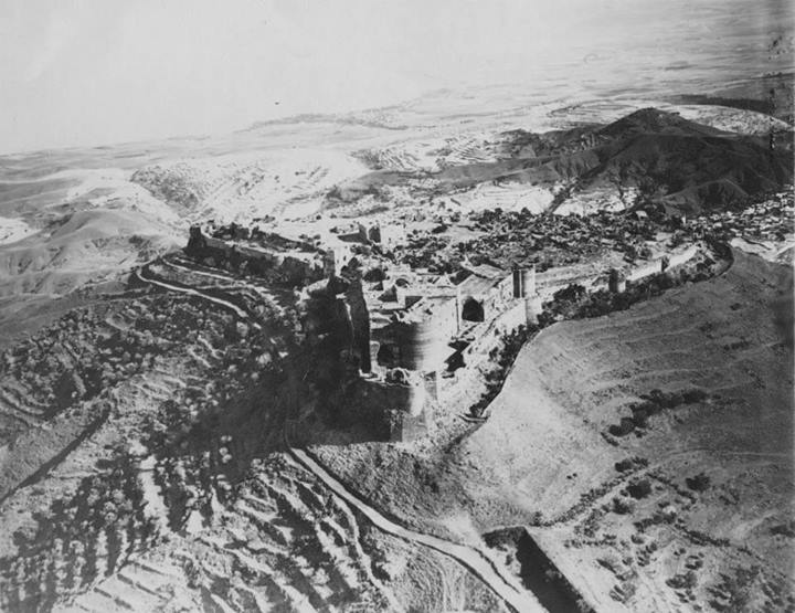 Le Markab, Syria in the 1930s, by Pierre Antoine Berrurier.